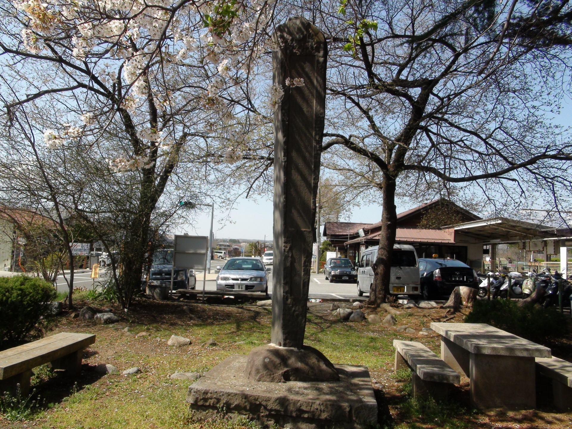 Backside of Shingen-ko Hatakake-matsu pine tree Monument